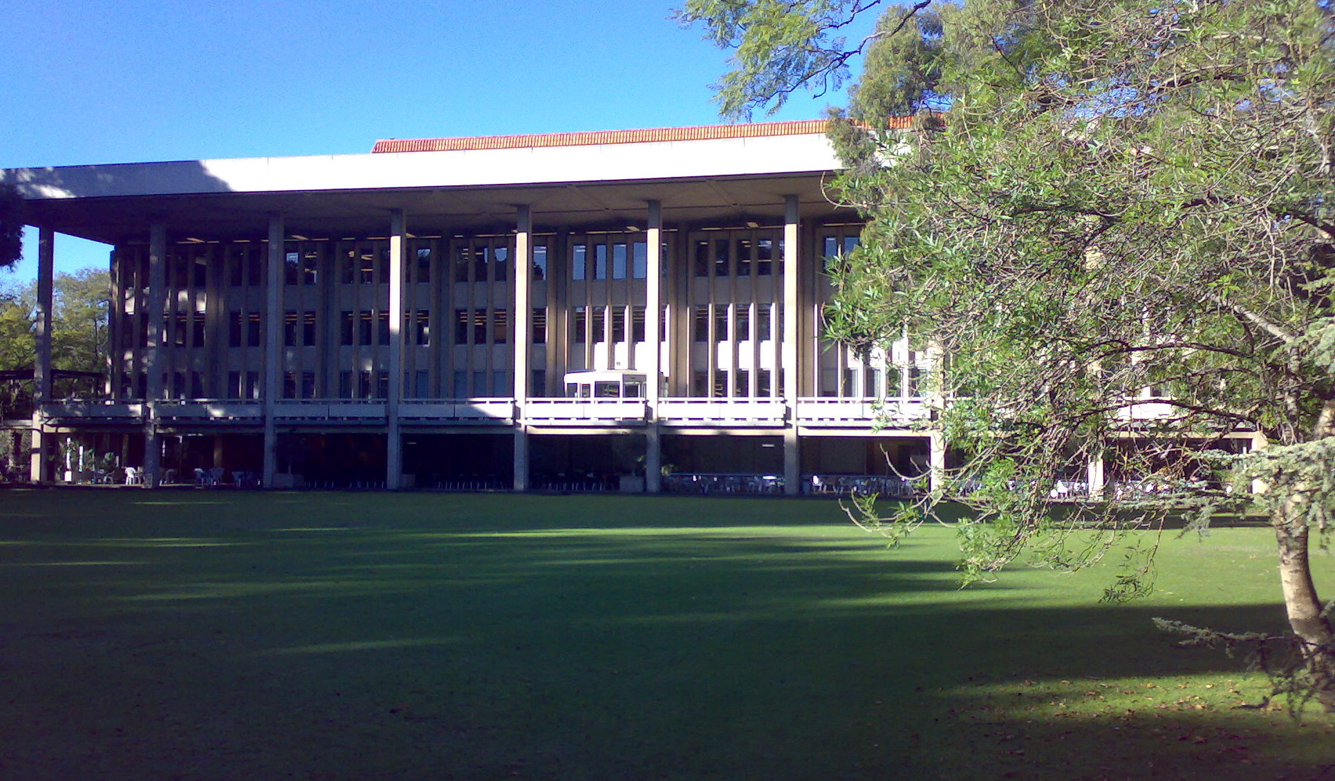 The Reid Library located in Western Australia. Awarded a RIBA Gold Medal in 1964.